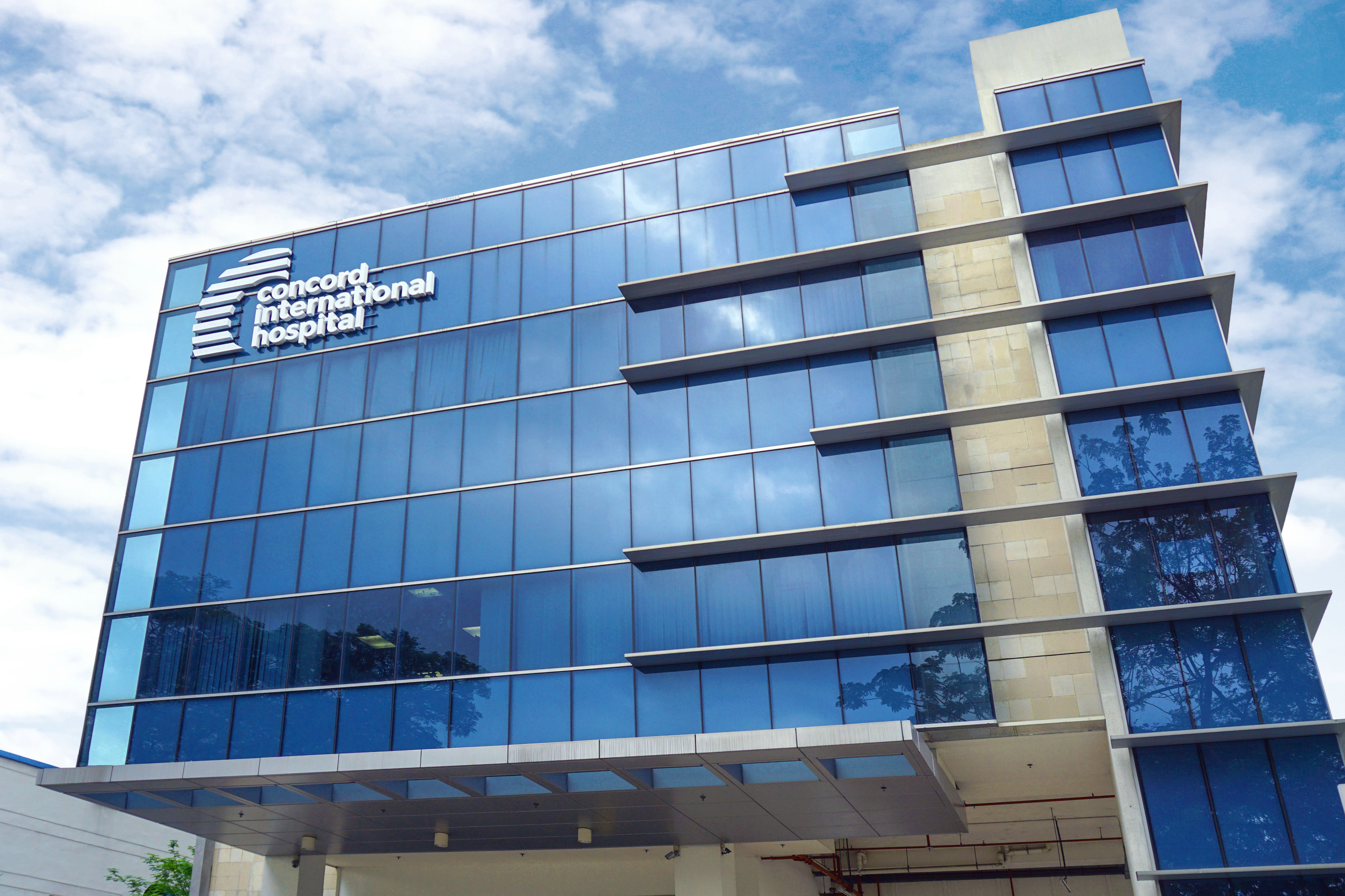 CIH Building